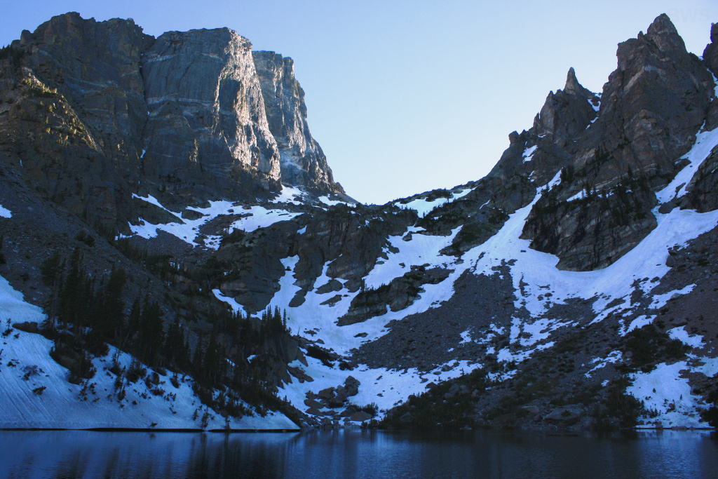 Rocky Mountain National Park, Colorado, USA, Emerald Lake with Hallett Peak on the left